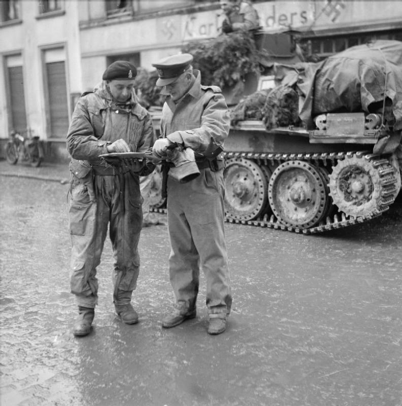 The British Army in North-west Europe 1944-45 Brigadier G E Prior-Palmer (right), commanding 8th Armoured Brigade, consults a map in Issum, Germany, 6 March 1945. A Crusader AA tank of the Nottinghamshire Yeomanry (Sherwood Rangers), can be seen in the background.